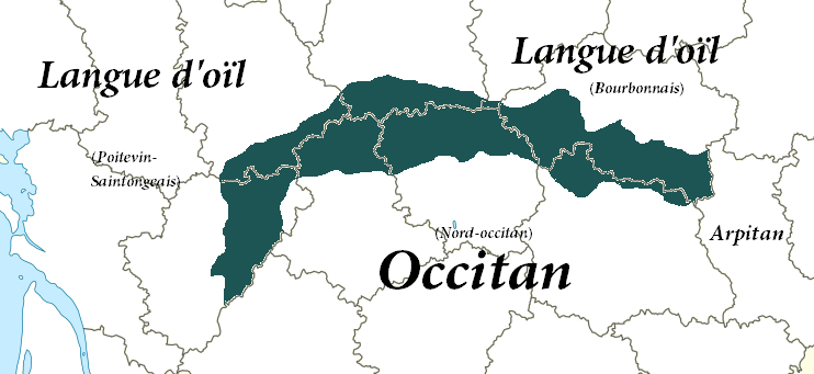 Crescent : Linguistic transition zone between Oc and Oïl languages. Croissant : Zone de transition linguistique entre Oc et Oïl. (Parlers auvergnats et limousins de transition avec le français).